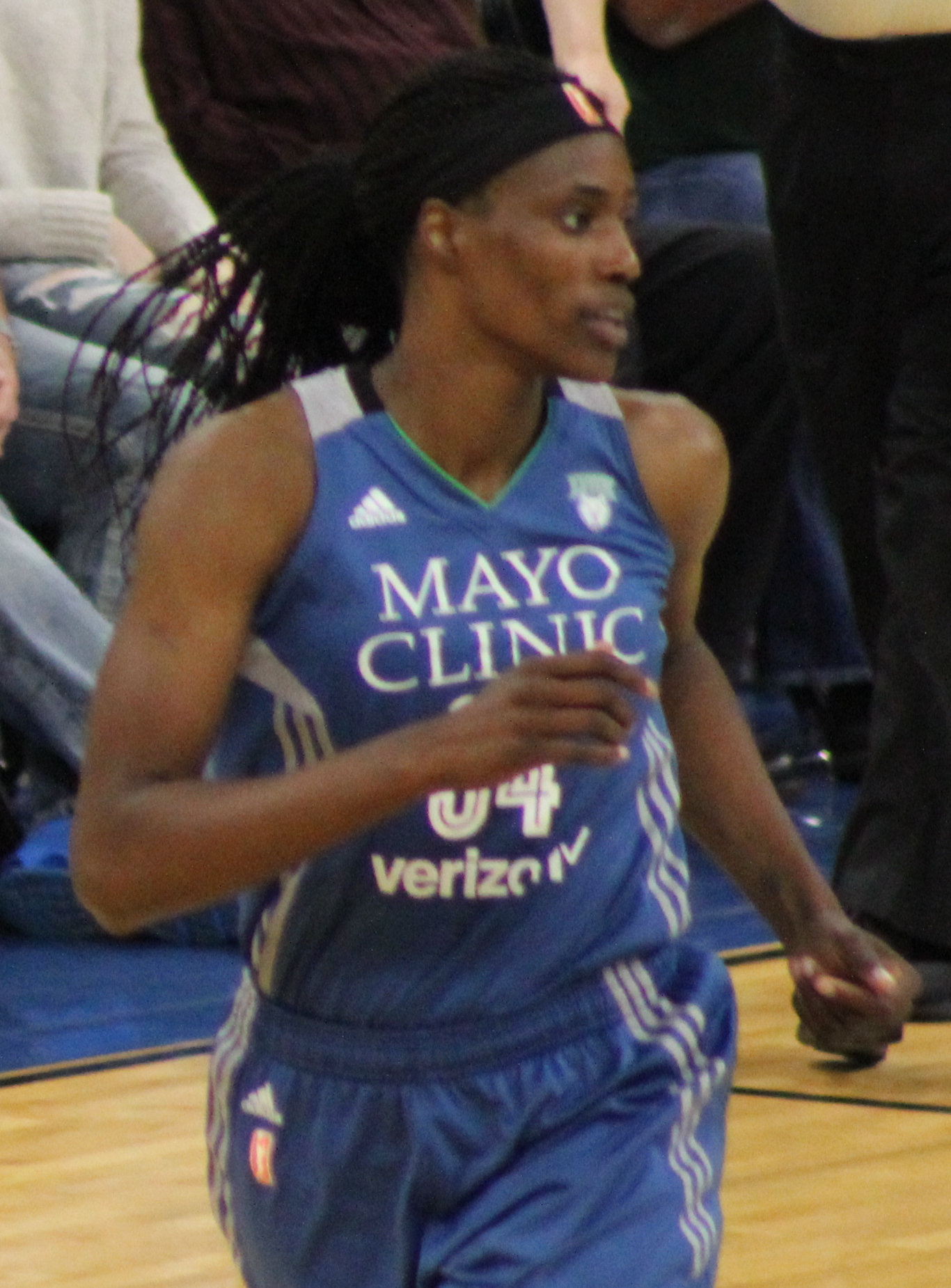 Sylvia Fowles of the Minnesota Lynx